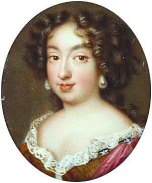 Marie Anne Victoire de Bavière, Dauphine of France by Jean Petitot today in the British Royal Collection